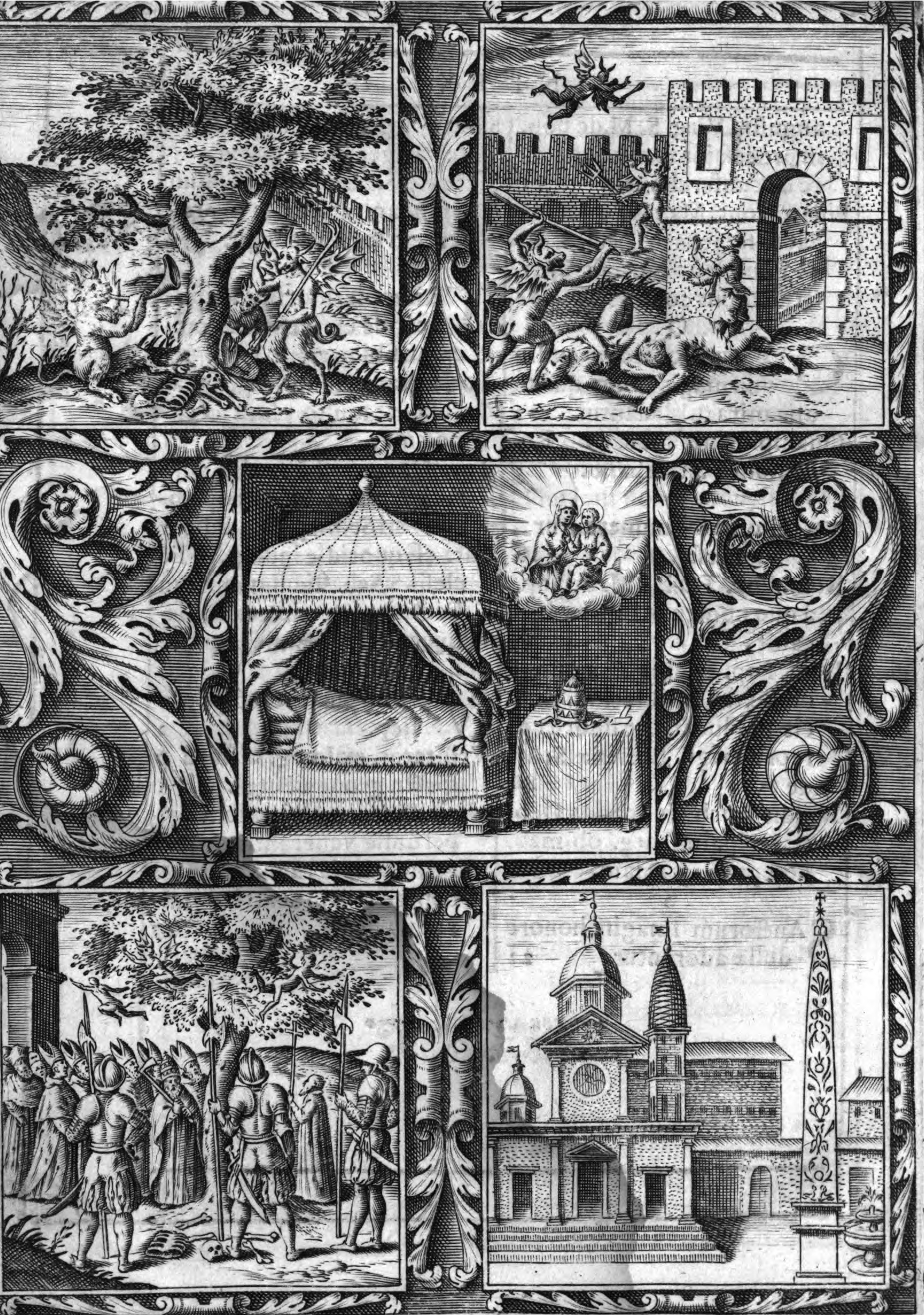 The foundation legend of the Basilica of Santa Maria del Popolo, engraving from Giacomo Alberici's book. Episodes: (1) the demons around the walnut tree that grew from Nero's tomb; (2) the demons killing travellers at Porta Flaminia; (3) the Madonna appearing to Pope Paschal II in his dream; (4) the Pope cuts down the evil tree; (5) a beautiful church was built in its place.